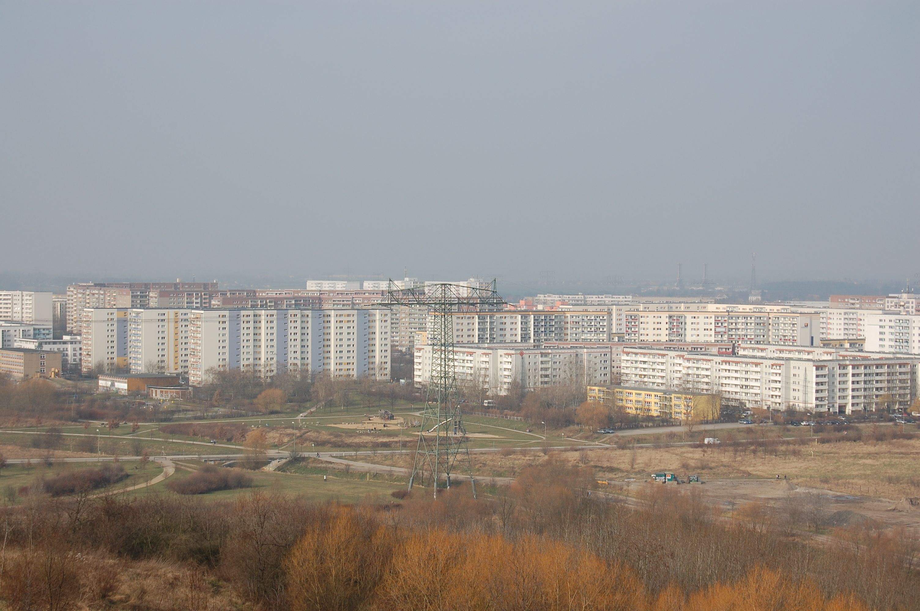 View from "Großer Ahrensfelder Berg" in Berlin: Neue Wuhle and pylon No. 30 of the 380 kV Berlin diagonal power line (circuits 495/496) in the front, in the background a part of Berlin-Marzahn (houses at Borkheider Straße and Belziger Ring